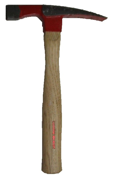 Photograph of a Mason's hammer. Also known as a brick hammer or a block hammer.